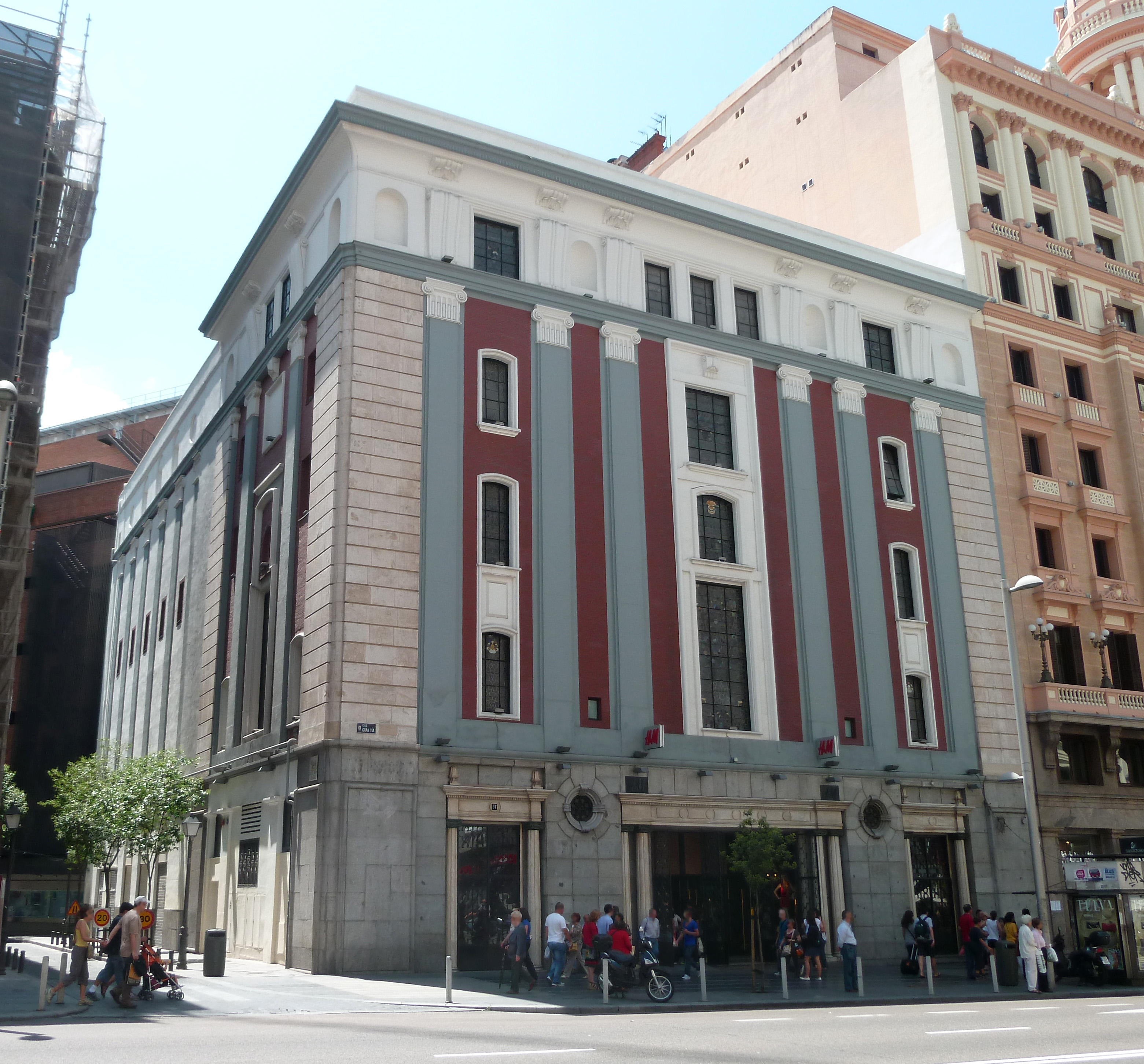 View of H&M store (former Avenida Cinema) at 37 Gran Vía (avenue) in Centro district in Madrid (Spain). Building was projected in 1927 by José Miguel de la Quadra-Salcedo and built from 1927 to 1928.